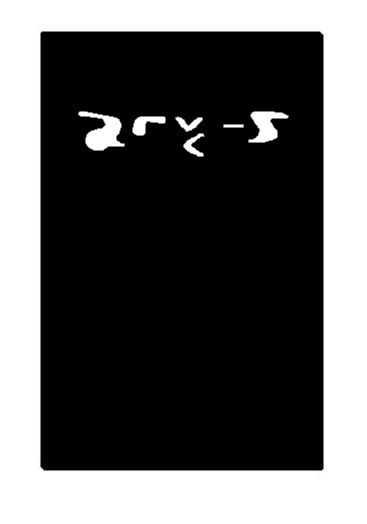 Book from Death Note